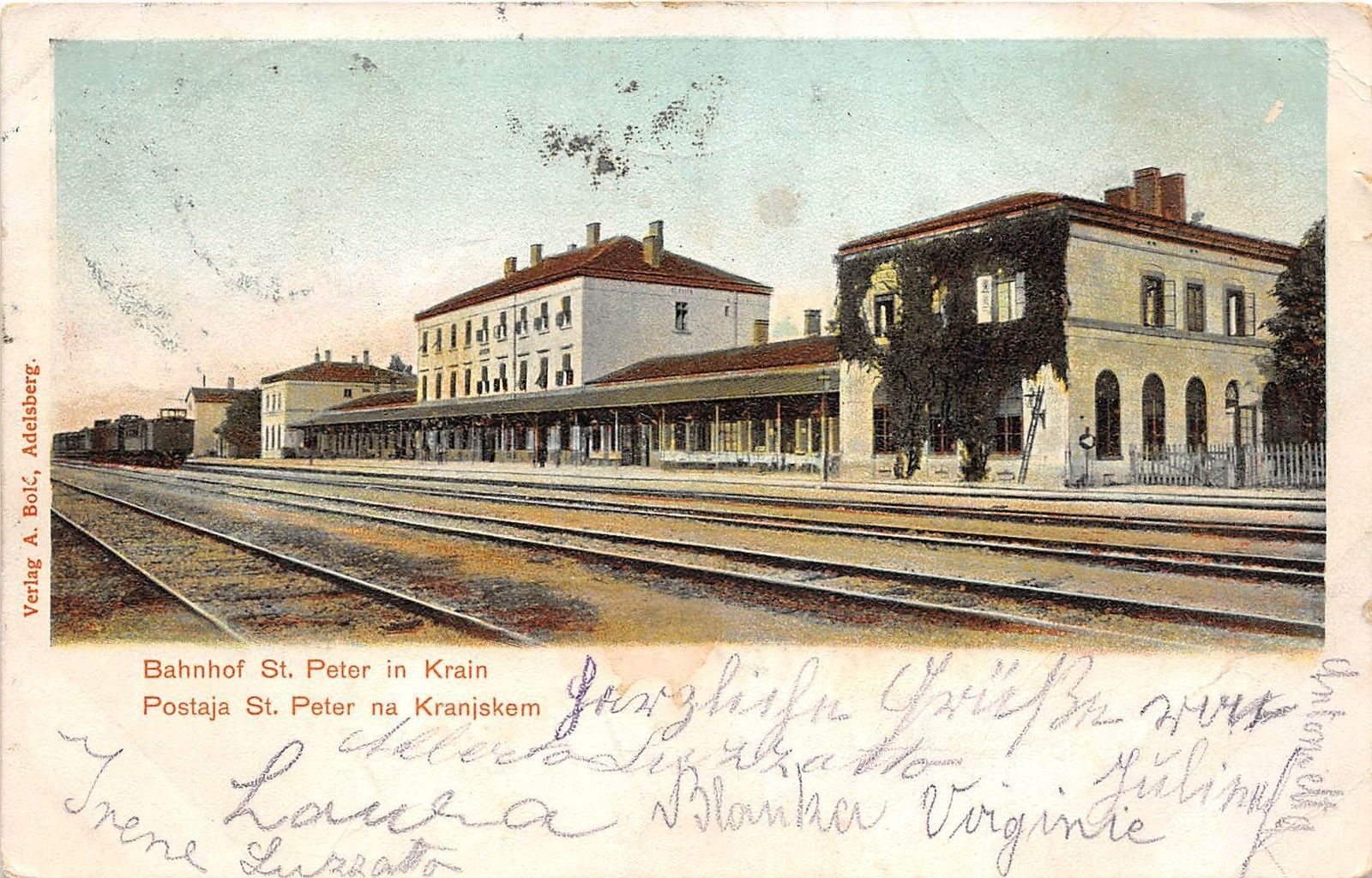 Postcard of Pivka.